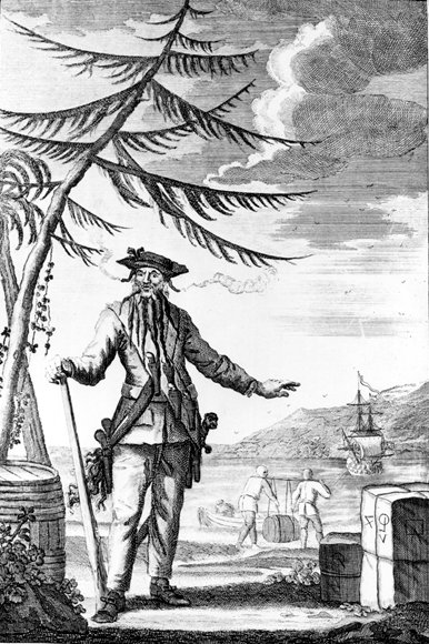 Blackbeard the Pirate: this was published in Defoe, Daniel; Johnson, Charles (1736) "Capt. Teach alias Black-Beard" in A General History of the Lives and Adventures of the Most Famous Highwaymen, Murderers, Street-Robbers, &c. to which is added, a genuine account of the voyages and plunders of the most notorious pyrates. Interspersed with several diverting tales, and pleasant songs. And adorned with the Heads of the most remarkable Villains, curiously engraven on Copper, London: Oliver Payne, pp. plate facing p. 86